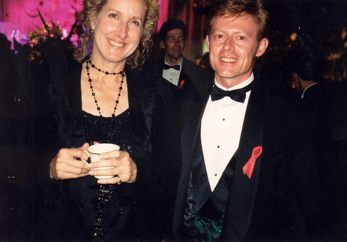 Betty Thomas and Alan Light at the Governor's Ball after the Emmy telecast 9/11/94 - Permission granted to copy, publish, broadcast or post but please credit "photo by Alan Light" if you can3855